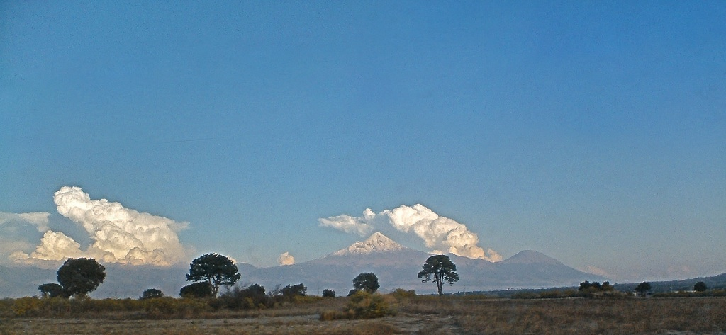 Pico de Orizaba visto desde la carretera Puebla-Perote.